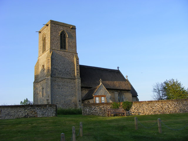 All Saints' parish church, Icklingham, Suffolk, seen from the southwest